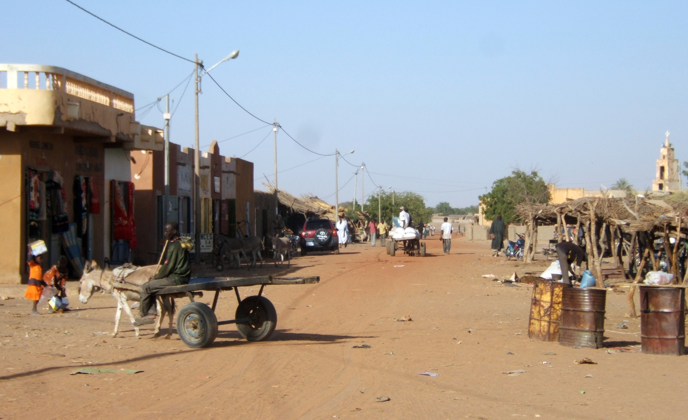 City of Nara, Mali